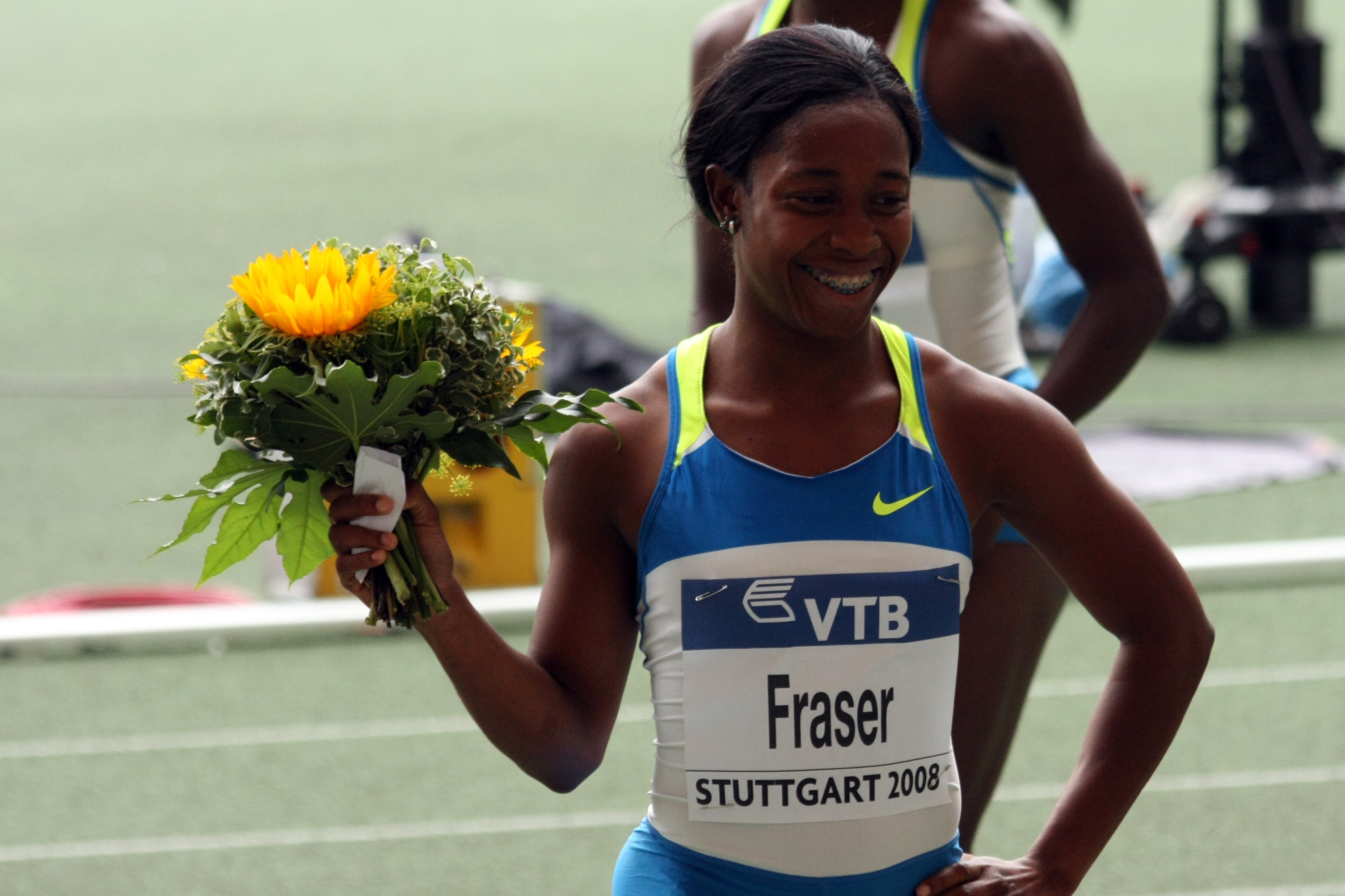 Shelly-Ann Fraser, 100 Metres Women